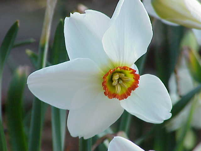 'Species: Narcissus poeticus 'Actaea Family: Amaryllidaceae Image No. 1